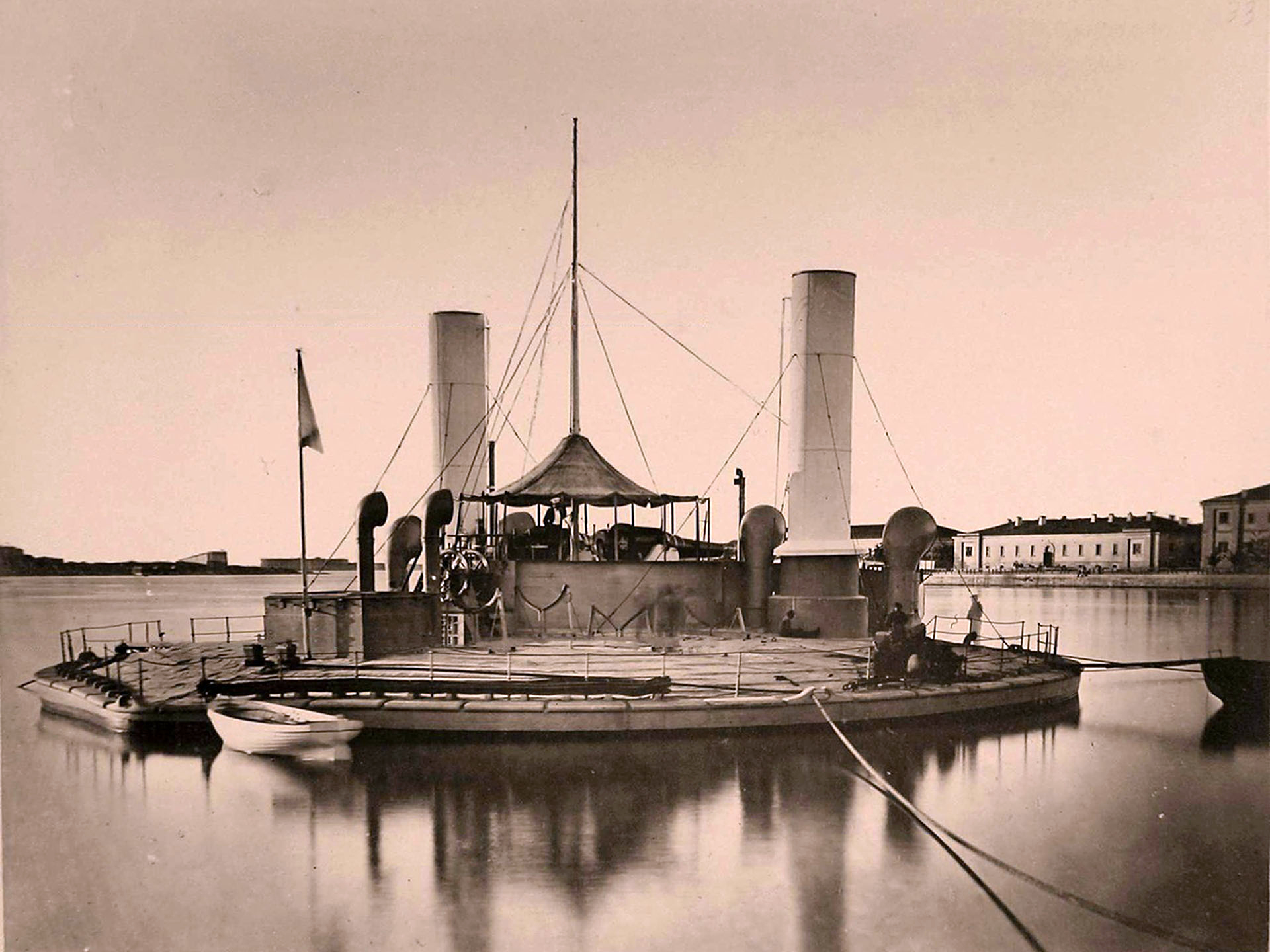 Novogorod as first built, 1873